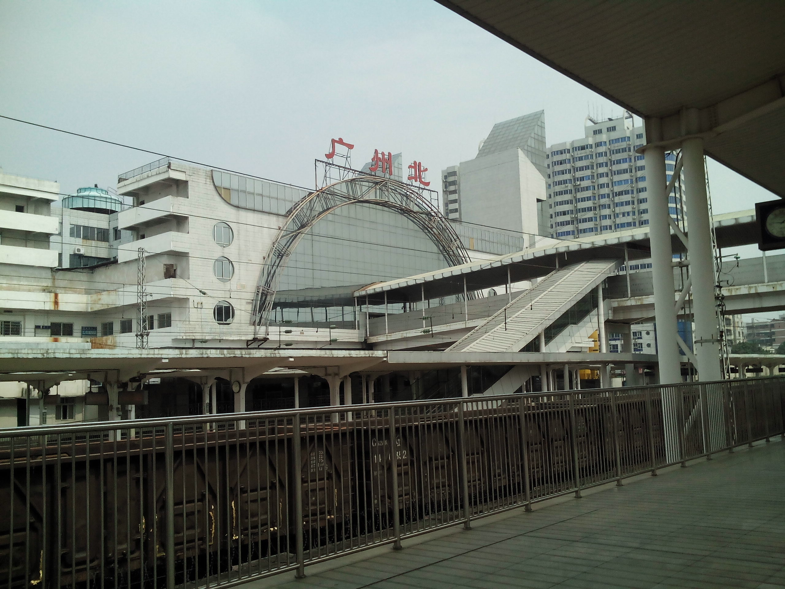 201504 Conventional Yard of Guangzhoubei Station